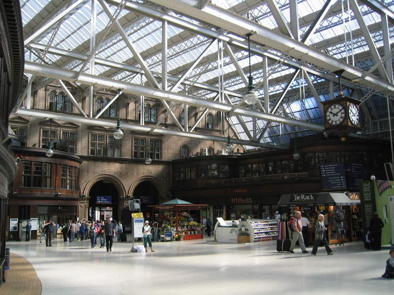 Photo of inside of Glasgow Central railway station taken by Alan Ford, released into the public domain